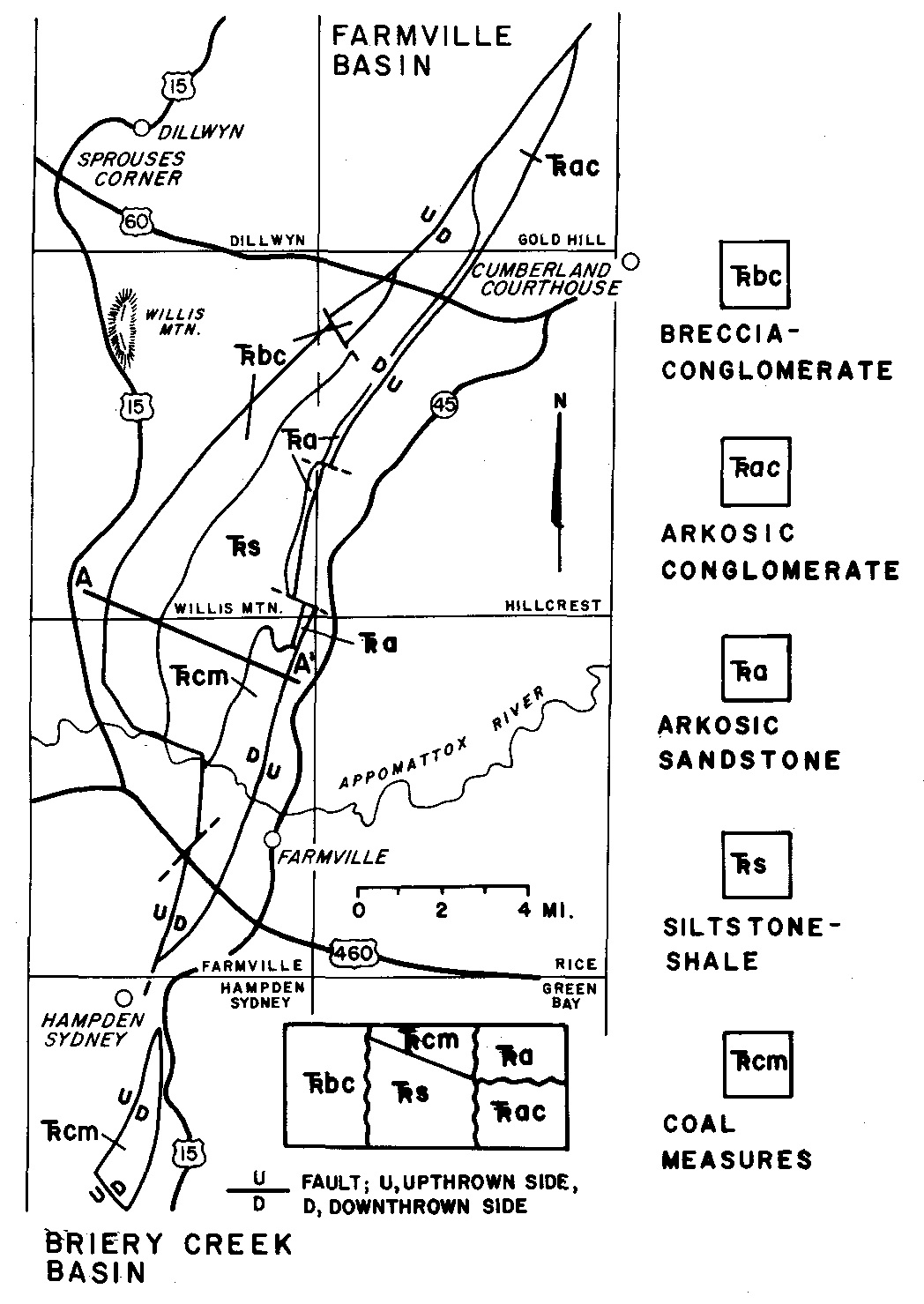 A Diagram of the Farmville Basin from the GEOLOGY AND MINERAL RESOURCES OF THE FARMVILLE TRIASSIC BASIN, VIRGINIA